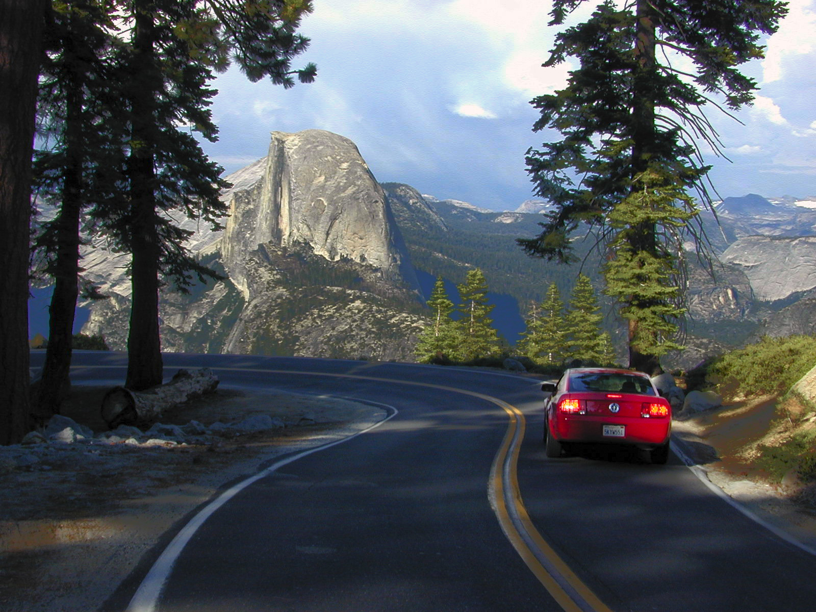 The last switchback on the road before Glacier Point, Yosemite National Park, California, USA.